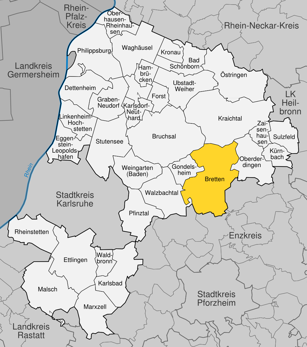 position of Bretten within distict of Karlsruhe, Baden-Württemberg, Germany